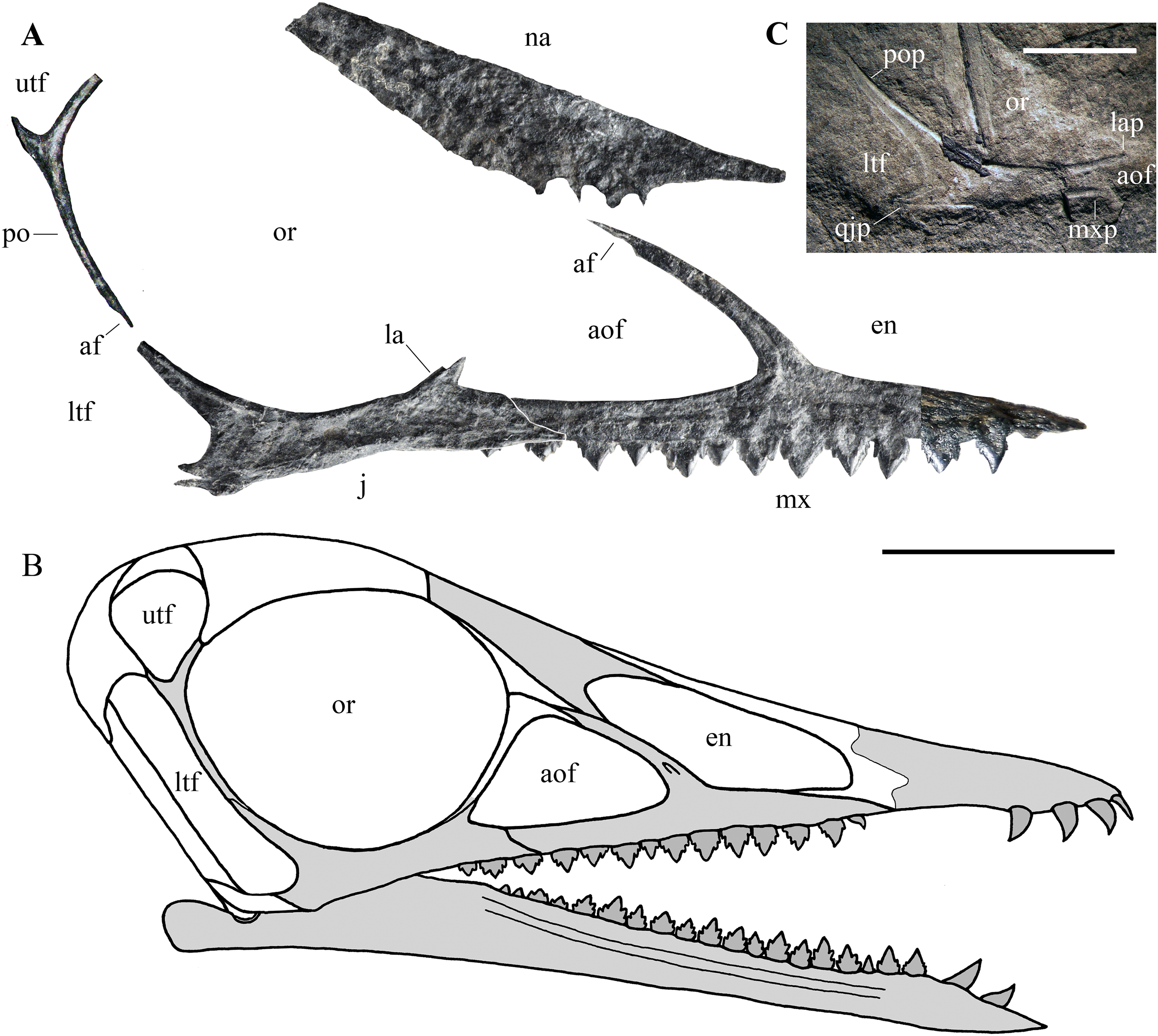 Seazzadactylus venieri, MFSN 21545 (holotype), assembly of skull bones and skullreconstruction. (A) assembly of the jugal, maxilla, postorbital and presumed nasal with the jugal andmaxilla articulated to obtain a continuous ventral margin of the antorbital fenestra, but concealing thelast two maxillary teeth; (B) tentative skull reconstruction (the preserved bones are in grey colour);(C); the jugal of the holotype of Austriadraco dallavecchiai (mirrored), for comparison. In (A), the rightjugal and maxilla are used in the assembly of the bones; the postorbital may be the right in lateral view orthe left in medial view; the presumed nasal may be the left or the right. In (A), the incompletely exposedrostral end of the premaxillary process of the right maxilla was integrated with the rostral end of thepremaxillary process of the left maxilla (colour of the part from the left maxilla is darker to show thisintegration). In (A), the ventral margin of the presumed nasal is irregular because it is covered by the rightmandibular ramus in the specimen. Abbreviations: af, articular facet; aof, antorbital fenestra; en, externalnaris; j, jugal; la, lacrimal; lap, lacrimal process of the jugal; ltf, lower temporal fenestra; mx, maxilla; mxp,maxillary process of the jugal; na, nasal; or, orbit; po, postorbital; pop, postorbital process of the jugal;qjp, quadratojugal process of the jugal; utf, upper temporal fenestra. Scale bar is 10 mm in (A) andfive mm in (C).